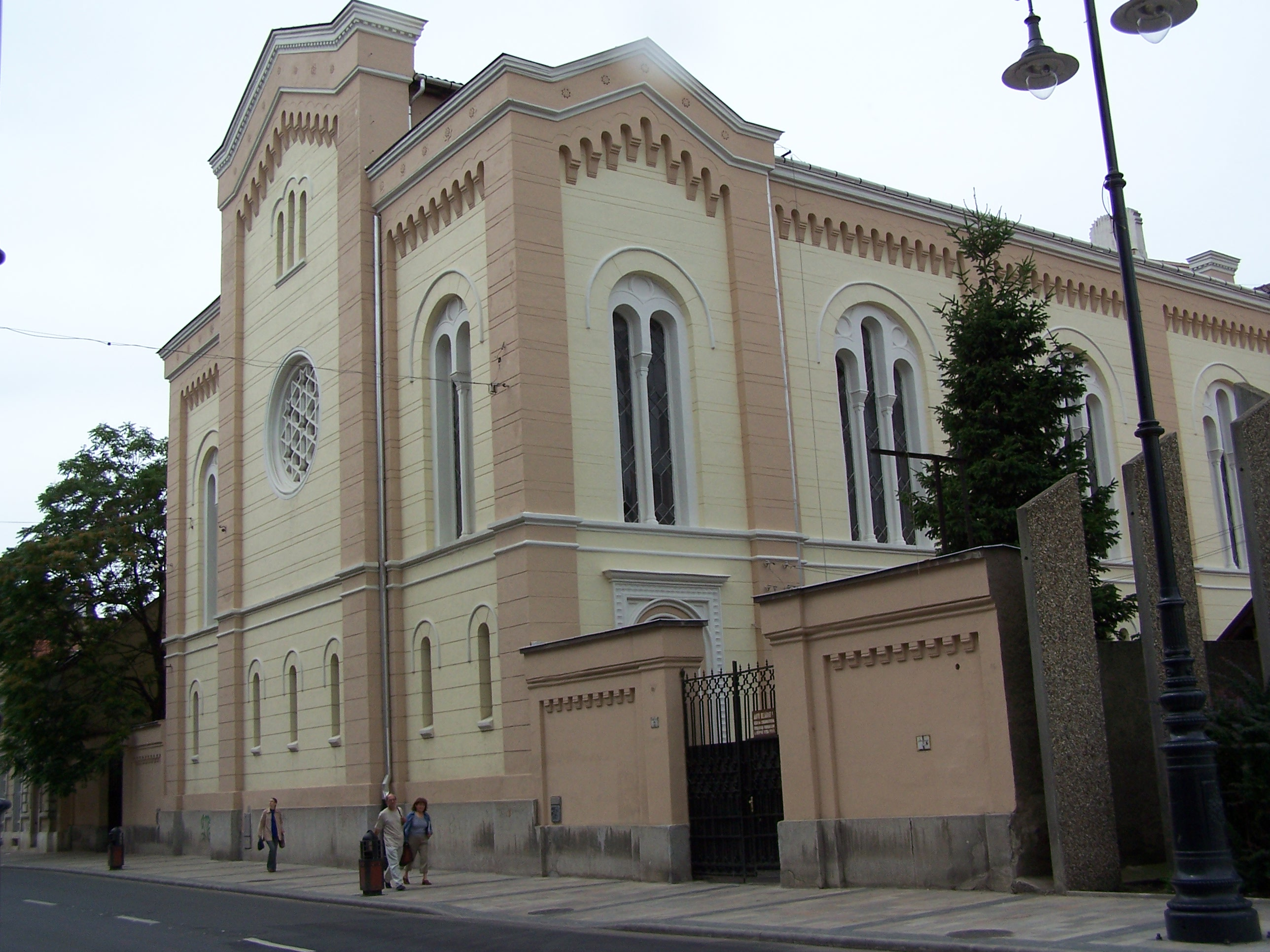 Synagogue of Miskolc, Hungary